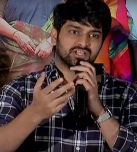 Indian actor Naga Shaurya at the teaser release event of the 2018 Telugu language film Ammammagarillu.